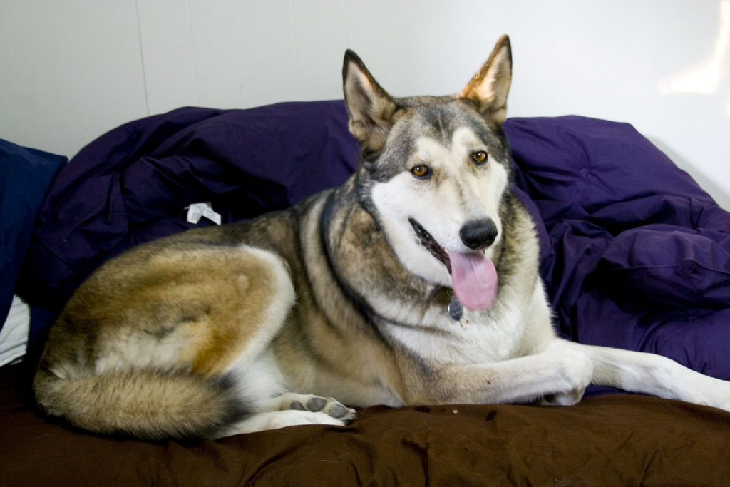 A wolf-dog hybrid with malamute ancestry.